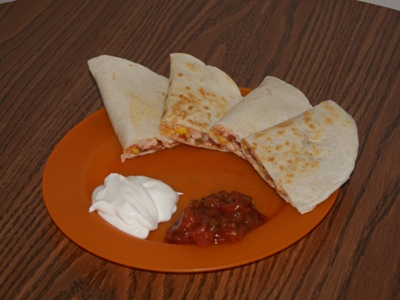 chicken quesadilla